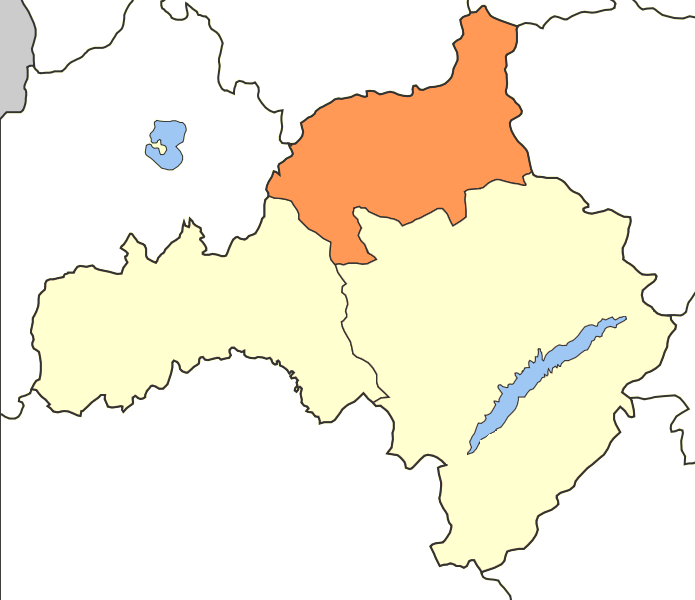 Eordea, former province of Macedonia, Greece